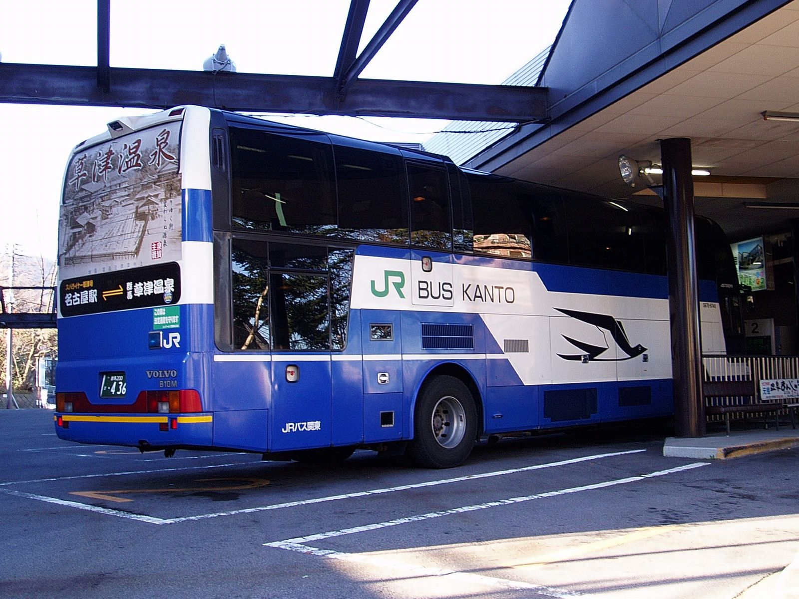 Volvo KC-M10MD "Asterope" built by Fuji Heavy Industries in 1997 (in-company code: S670-97411, license plate: Gumma 200 Ka 436) for the Spa Liner Kusatsu-go service operated by JR Bus Kanto Tokyo Branch Office at Kusatsu Onsen Bus Terminal in Kusatsu Town, Gunma Prefecture, Japan